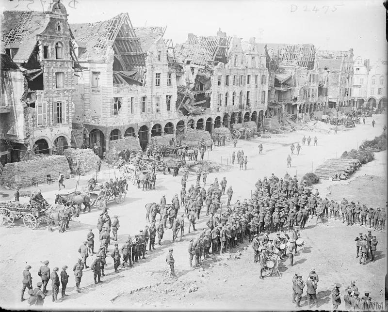 The Battle of Arras, April-may 1917 British military band playing in a town square in Arras, 30 April 1917.